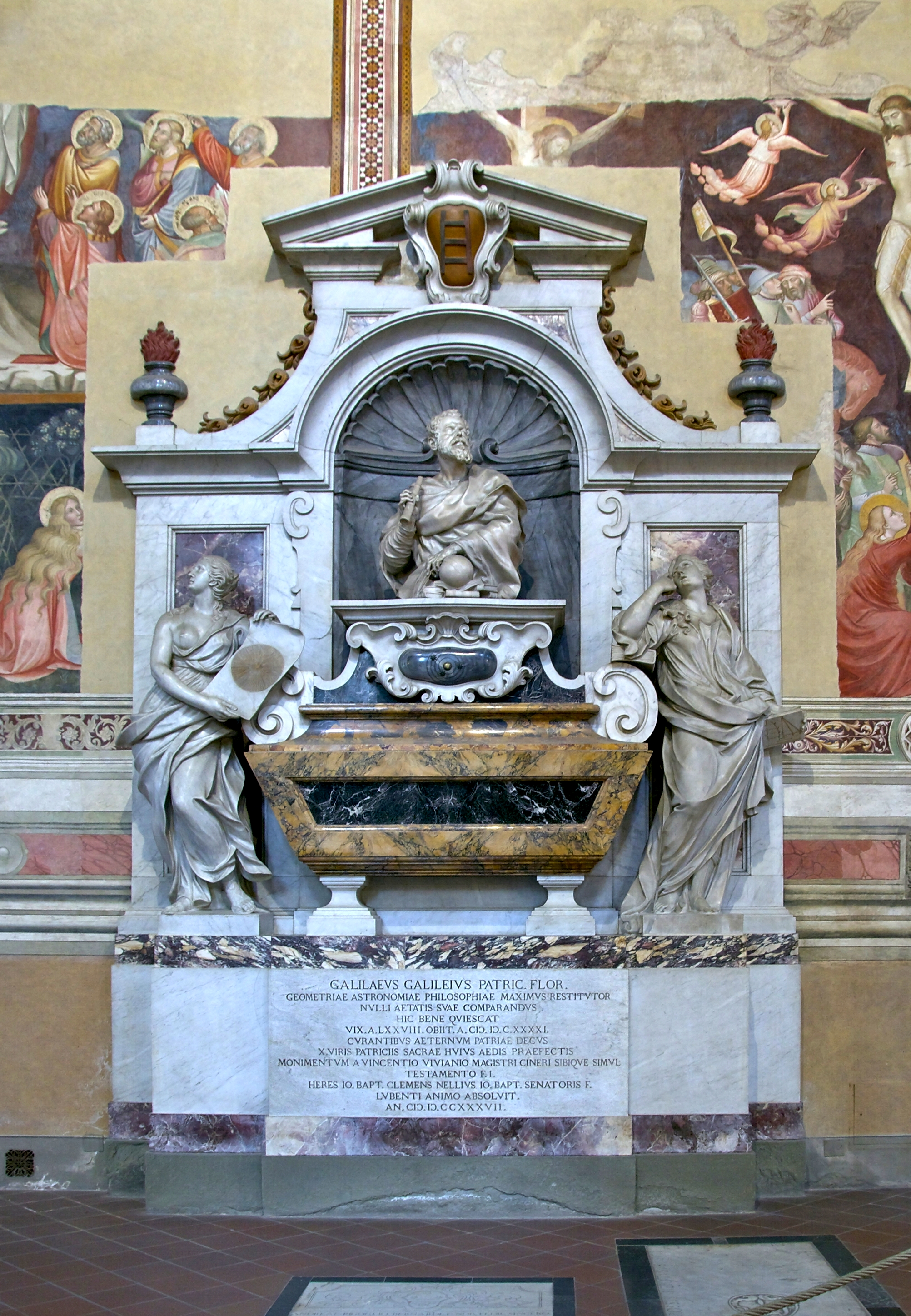 Galileo galilei tomb in the Santa Croce (holy cross) Basilica of Florence, Italy.